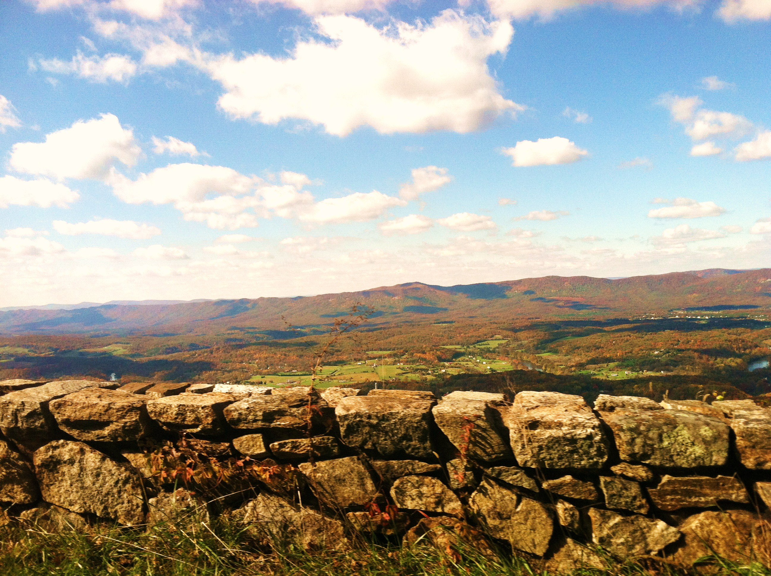 Robertson Mountain Site